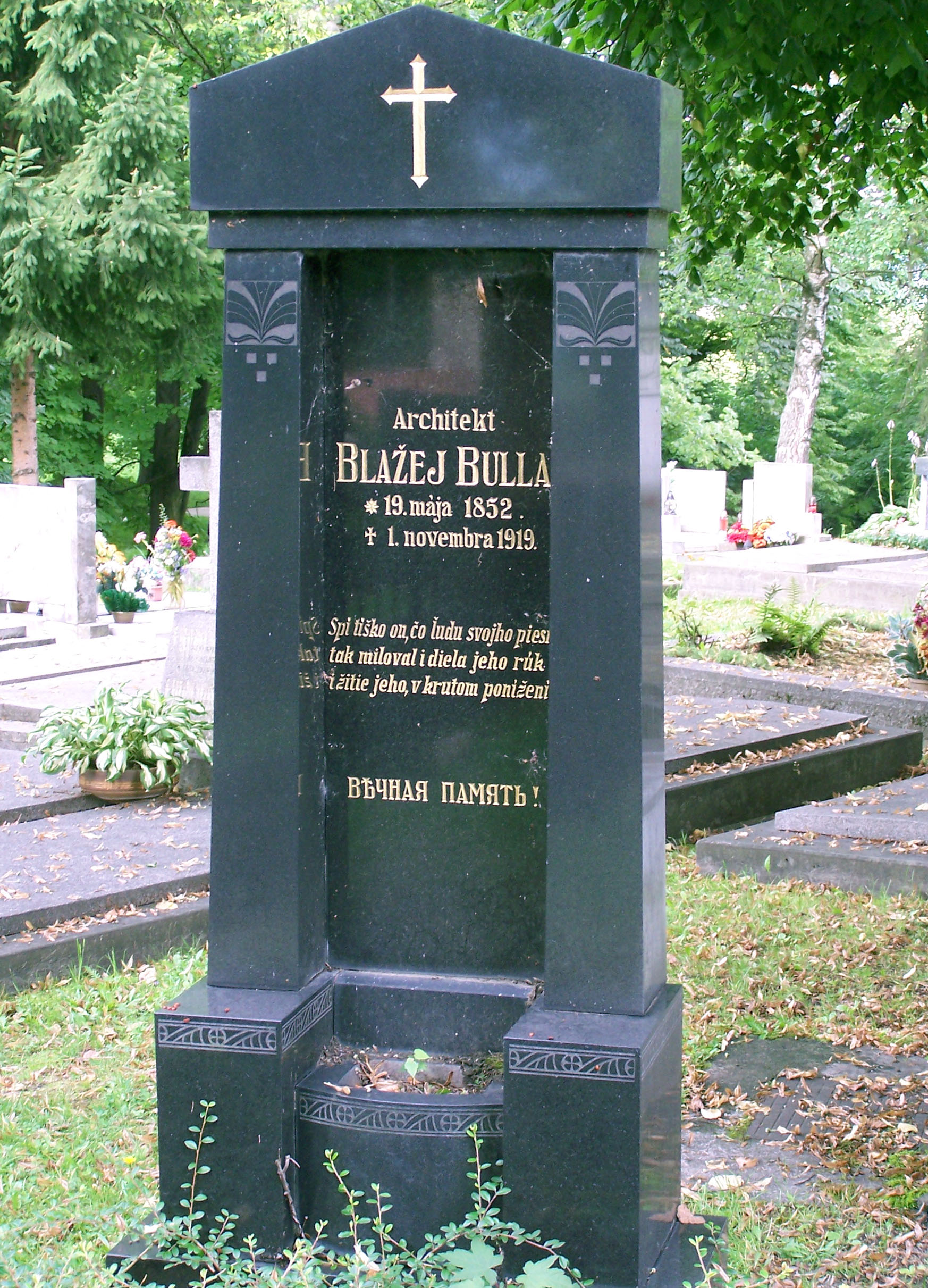 Grave of Blažej Bulla at the National Cemetery in Martin, Slovakia